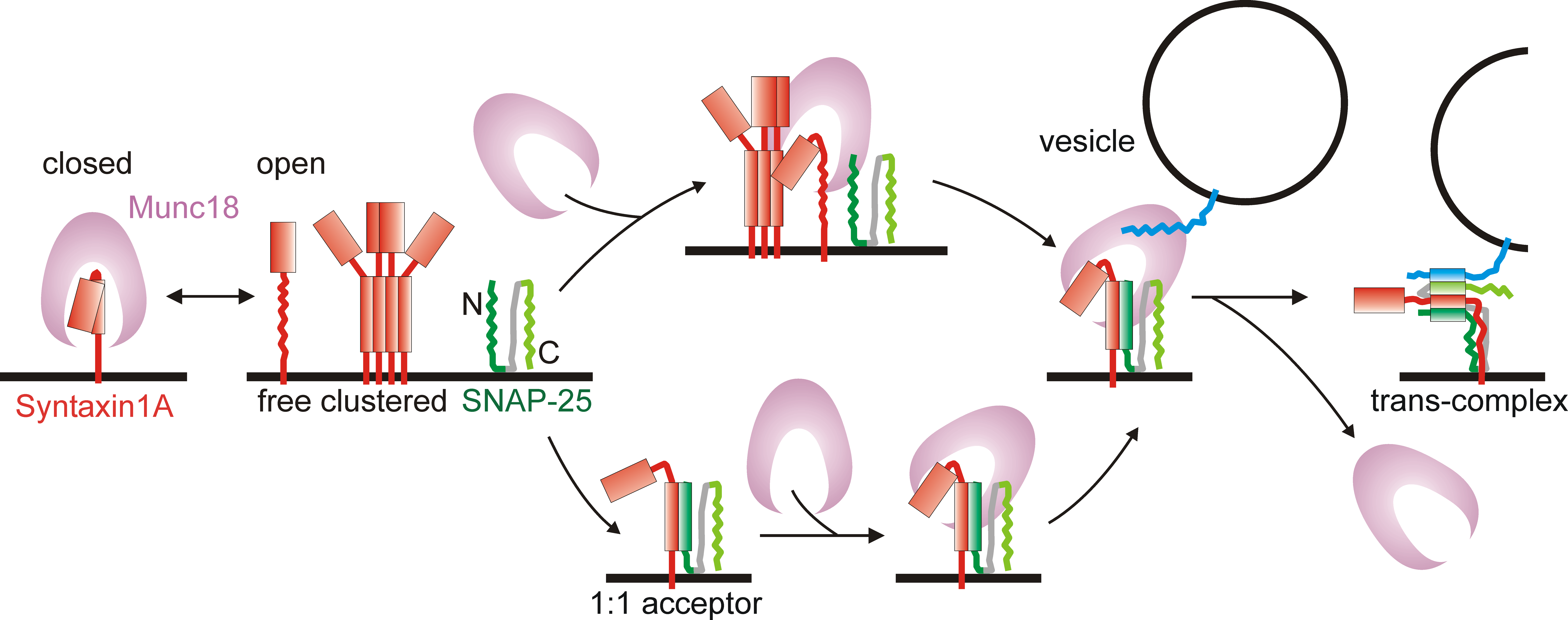 Munc18–1 binds to a partially closed conformation of syntaxin that is organized in clusters and that may (bottom branch) or may not (top branch) be associated with SNAP-25 at a 1:1 stoichiometry. After vesicle docking, synaptobrevin interacts with this complex, thereby displacing Munc18–1. Alternatively, SNAP-25 is not yet associated with the complex, and synaptobrevin binding is associated with the simultaneous recruitment of SNAP-25. As result, SNARE trans-complexes form, leading to exocytosis. It is possible that some syntaxin molecules that are freely diffusing in the membrane are capable of binding Munc18–1 with high affinity in a closed conformation (left) similar to that observed in solution, thereby preventing it from entering SNARE complexes. Such a pool could be reflected by Munc18–1 remaining membrane associated even after extensive washing periods.